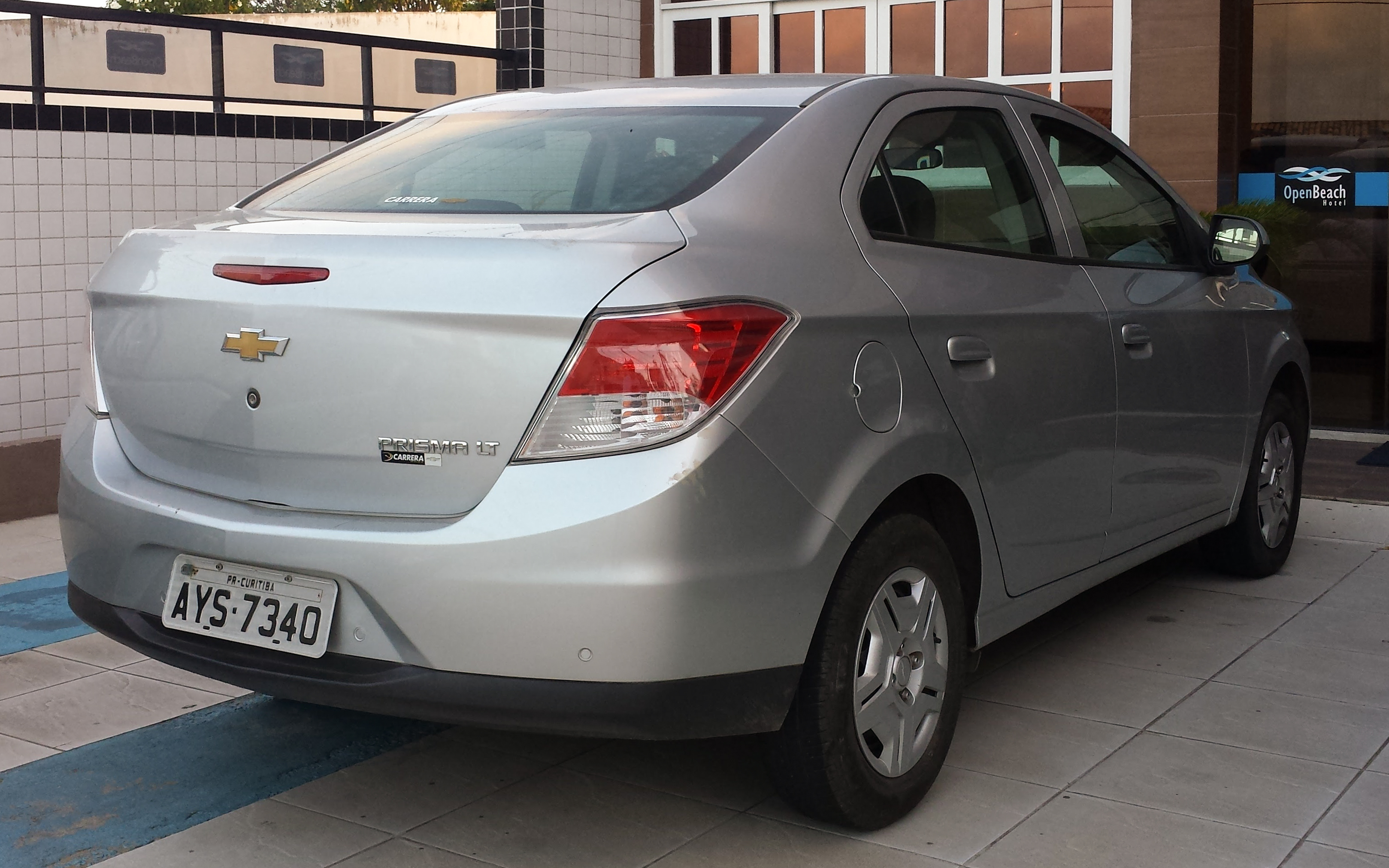 Chevrolet Prisma MkII